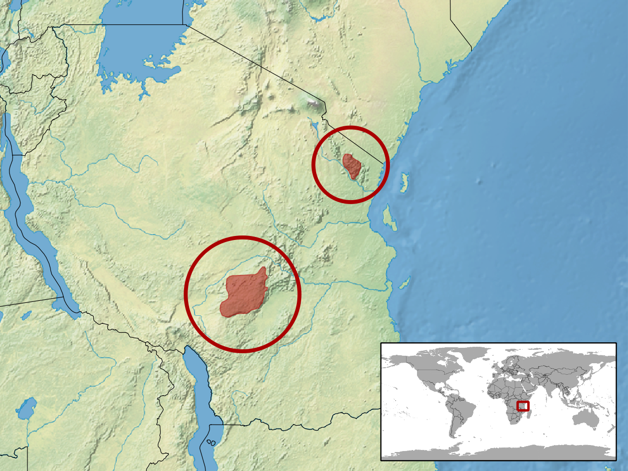 geographic distribution of Atheris ceratophora (Native: Tanzania, United Republic of)